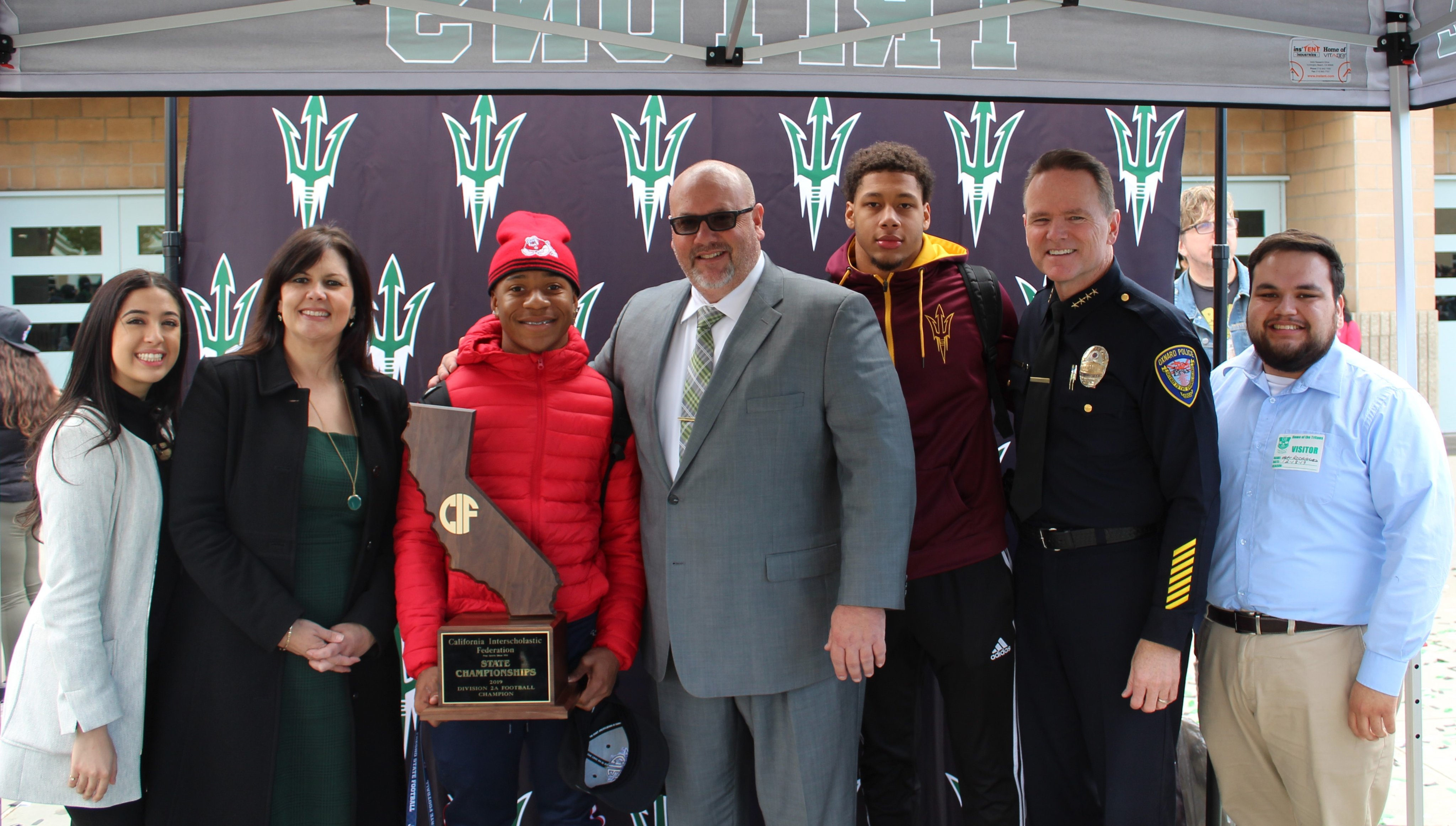 TeamBrownley (including two proud Pacifica High School alumni) were thrilled to attend Pacifica High School’s pep rally celebrating the Triton Football Team’s CIF State Championship. Way to go, Tritons!